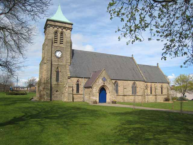 St Paul's parish church, Whitworth Terrace, Spennymoor, County Durham, seen from the south. The church was consecrated in 1858, gutted by fire in 1954 and restored and reconsecrated in 1956.